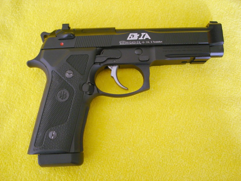 Elite 1A